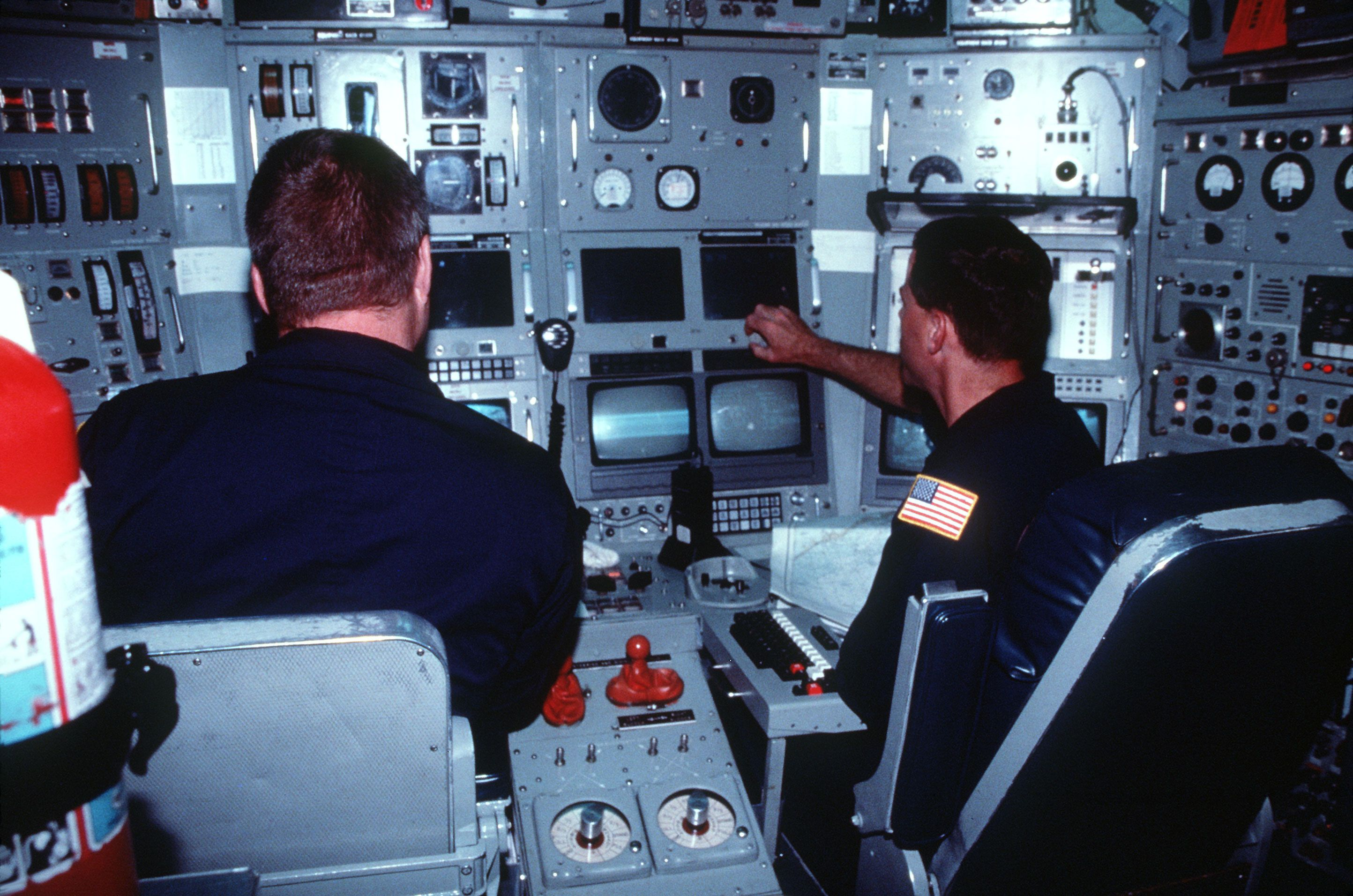 DN-ST-97-00254 Machinist Mate First Class (MM1) Brett Jabia watches Lt. Cmdr. David Olivier, commanding officer of NR-1, the Navy's only nuclear-powered deep submergence research craft, adjust some instruments while cruising off the coast of Key Largo, Florida.